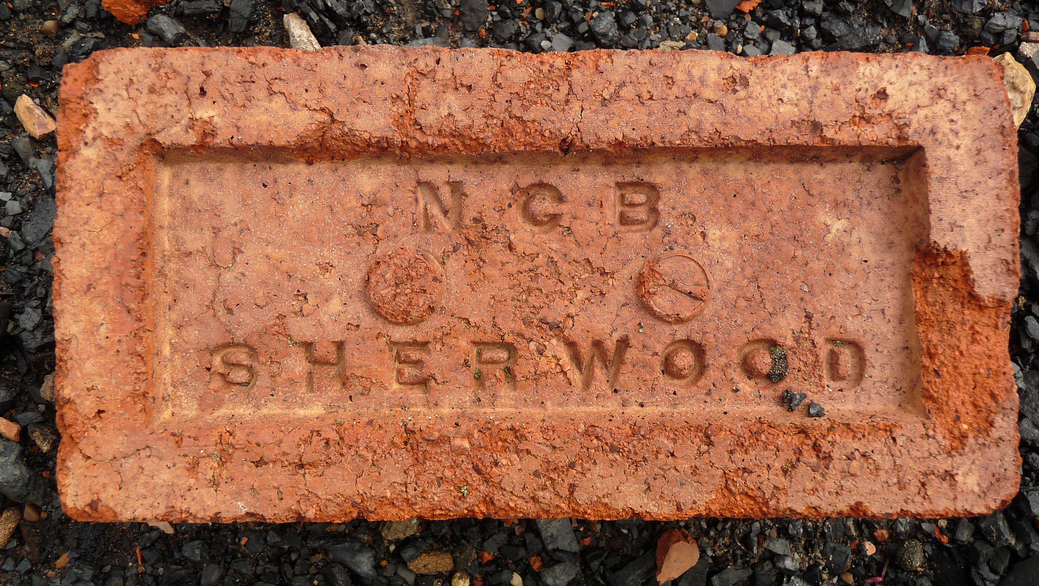 N.C.B Sherwood 1902-1992